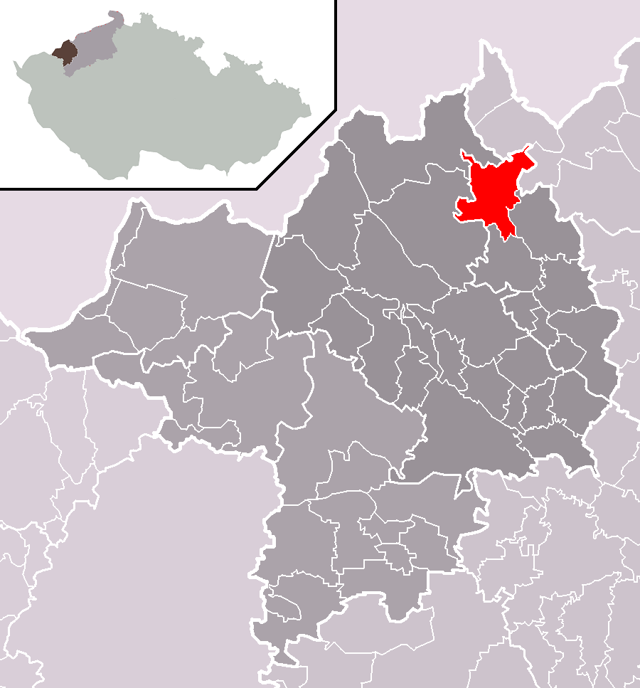 Location of Boleboř municipality within Chomutov District and administrative area of Chomutov as a Municipality with Extended Competence.